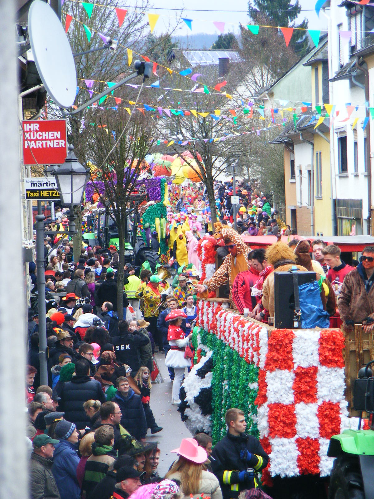 Rose Monday Parade in Herschbach, Rhineland-Palatinate, Germany